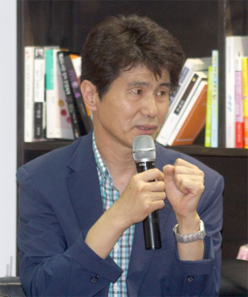 Yoon Dae--nyeong at SIBF 2014